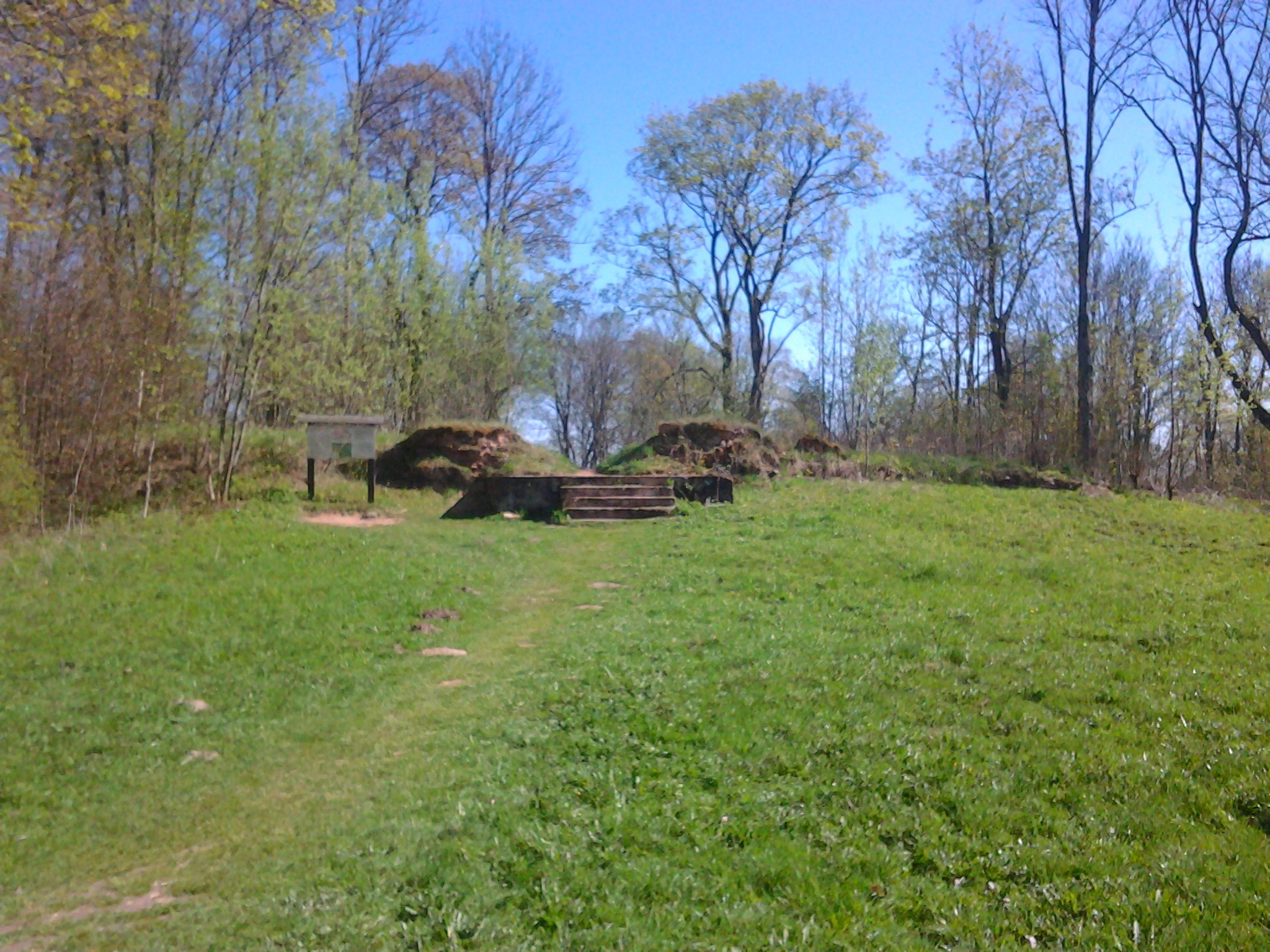 Stara Hańcza - village in Podlaskie Voivodeship, Poland. Remains of former manor house.